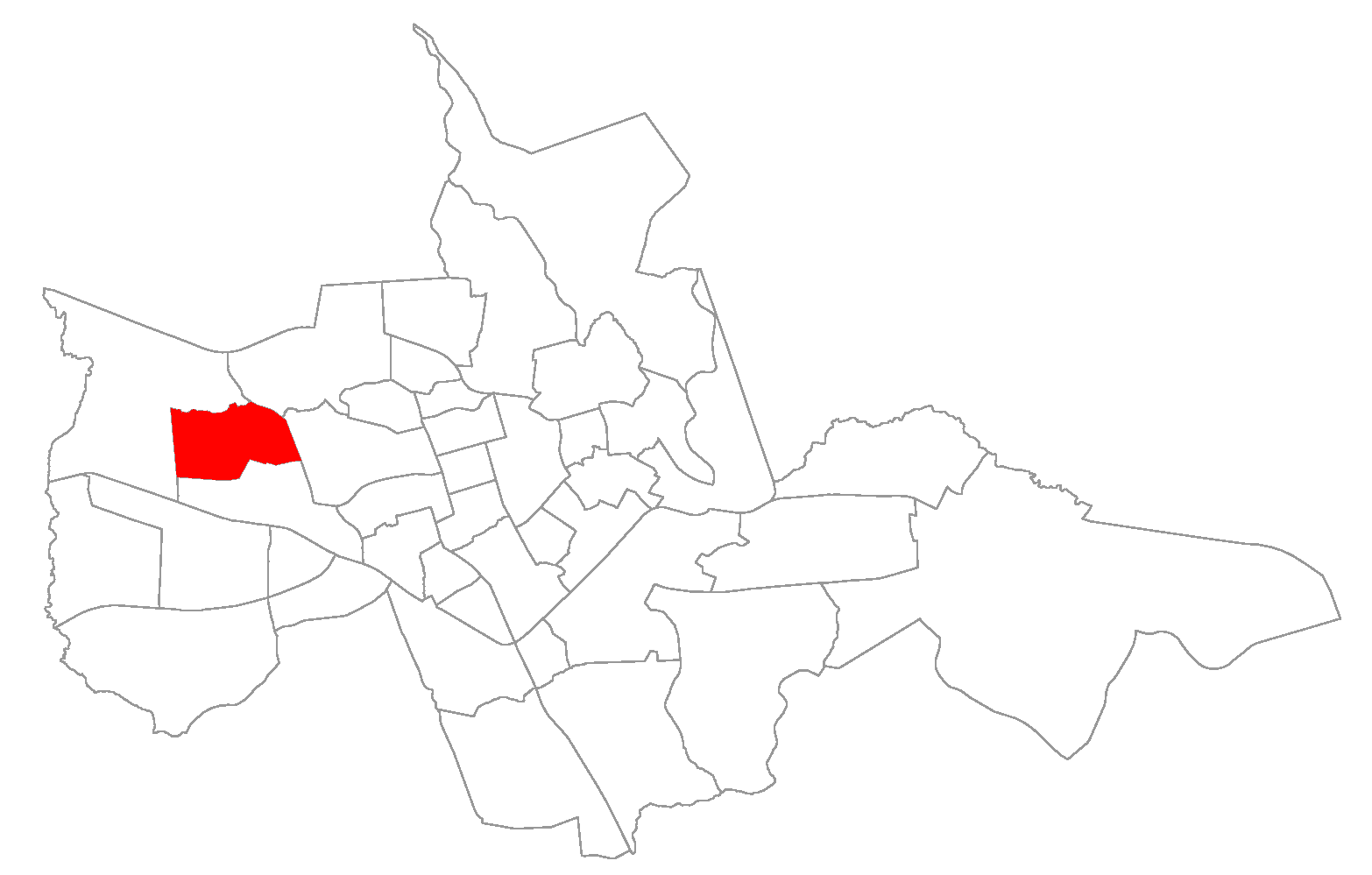 neighborhood/district of Santa Maria, Rio Grande do Sul